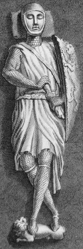 William Marshal, 2nd Earl of Pembroke